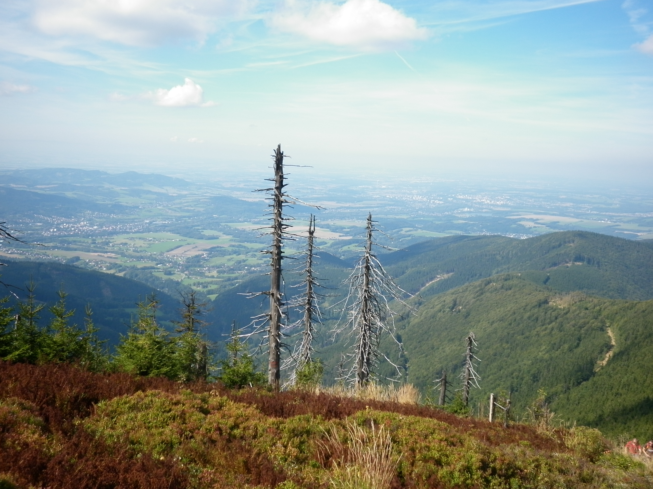 Nature reserve "Malenovický kotel" in Frýdek-Místek District, Czech Republic. Valley of Satina river.